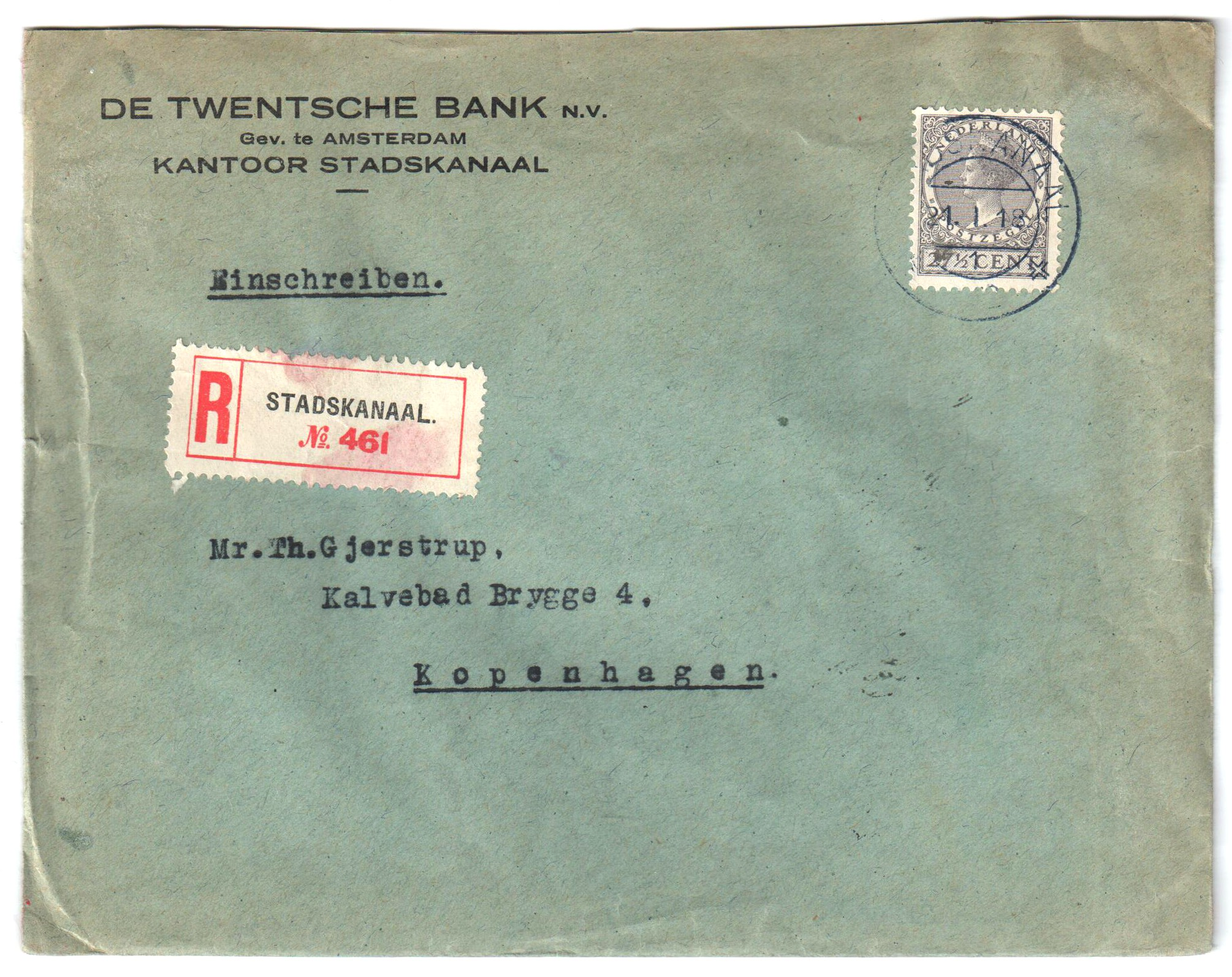 Netherlands 1932-1-21 registered money letter franked with 27.5c NVPH 193 single, from Stadskanaal to Copenhagen. 5 wax seals of 'De Twentsche Bank' backside, as well as arrival Copenhagen 23-1-32.